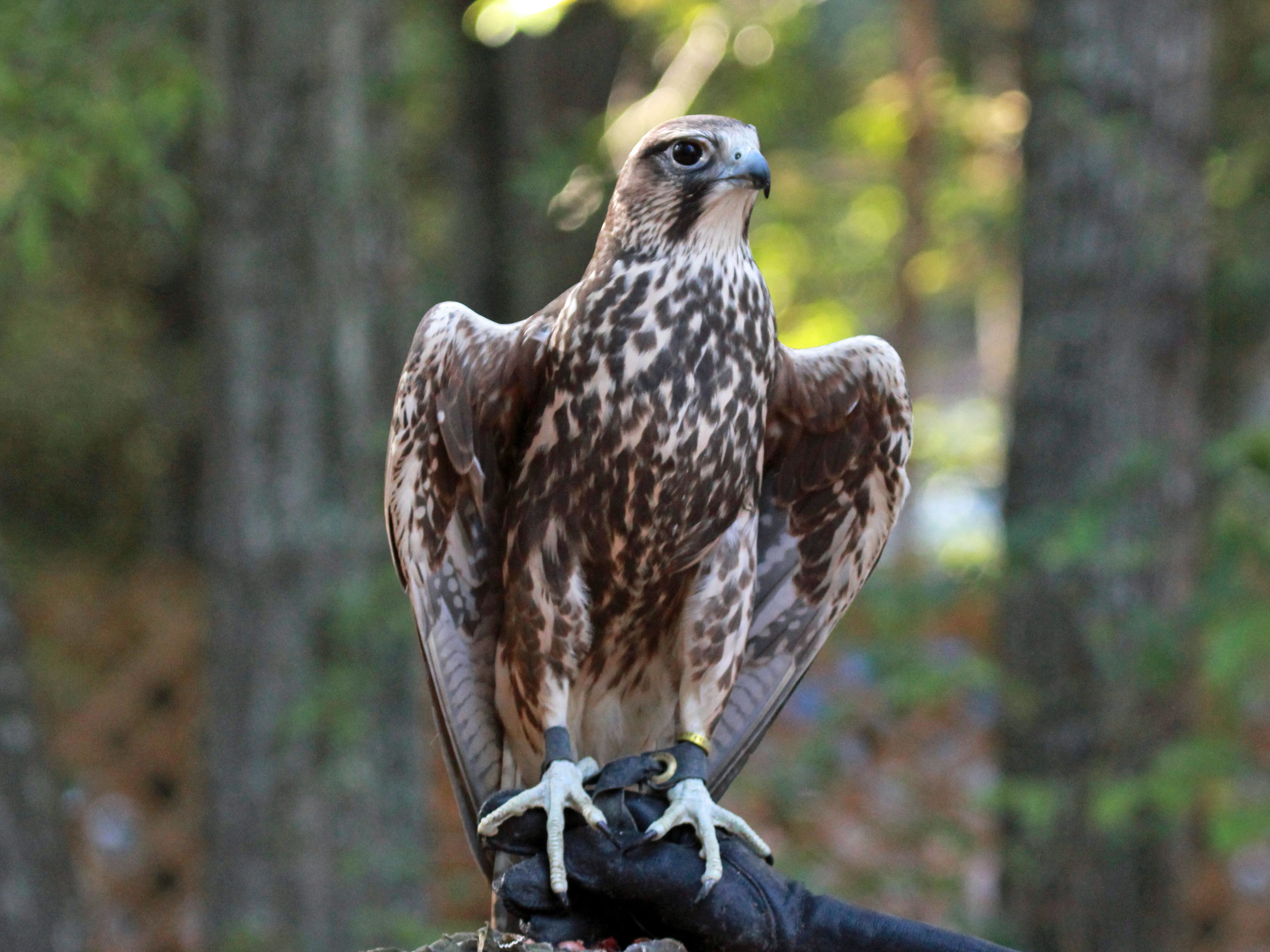 Saker Falcon (Falco cherrug) - Carolina Raptor Center at Huntersville, North Carolina